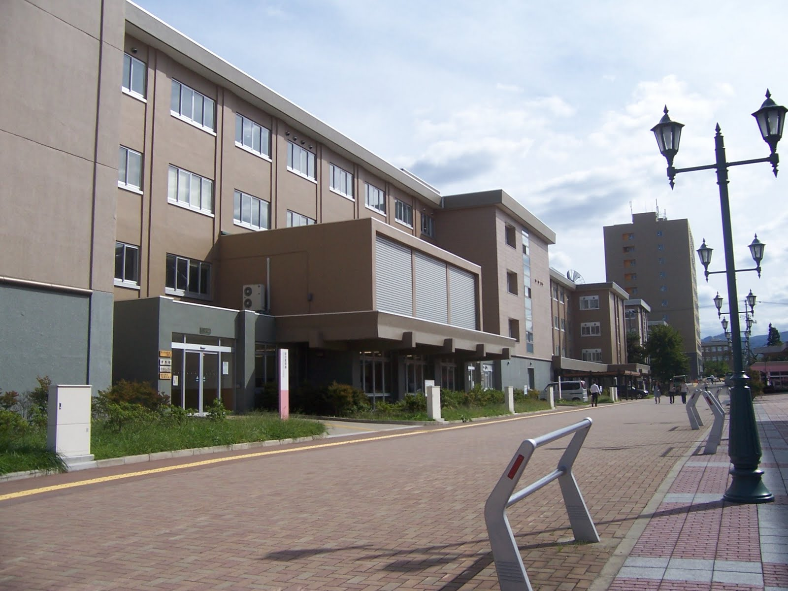 Hirosaki University